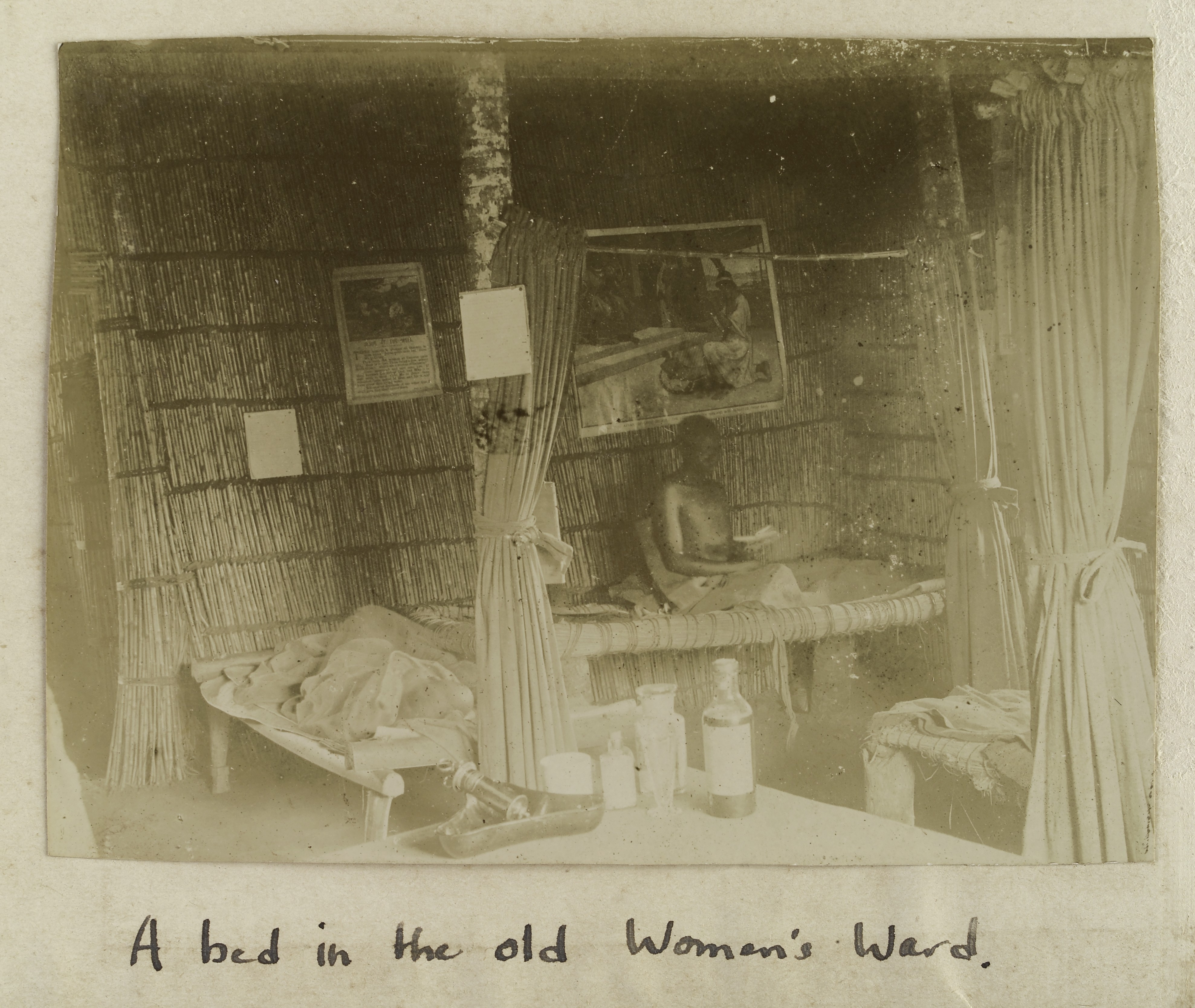 A bed in the Women's Ward, Mengo Hospital, Uganda Archives & Manuscripts Keywords: Beds; Patient; Kampala; Albert Ruskin Cook; Africa; Bed; Convalescence; Patients; Church Missionary Society; Uganda; Missionary Medicine; Hospitals